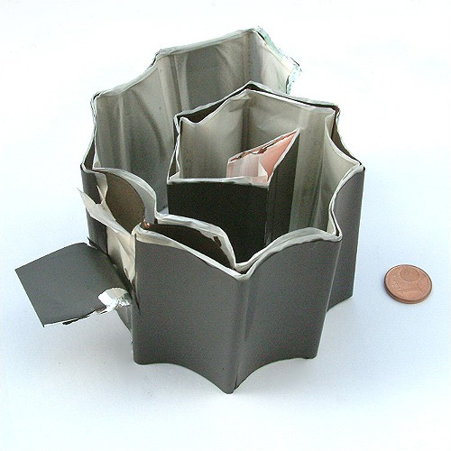 the electrodes of a discharged (!) lipoly battery